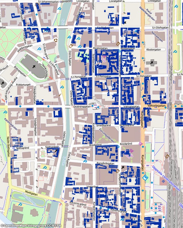 Map of buildings in central Uppsala which were demolished in the 1958-1978 urban renewal.